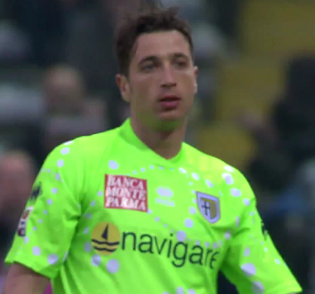 Parma F.C. Goalkeeper Antonio Mirante during a Serie A match.